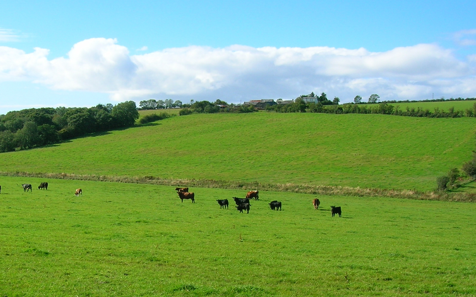 Lindston Loch and line of feeder burn, Dalrymple, Ayrshire, Scotland